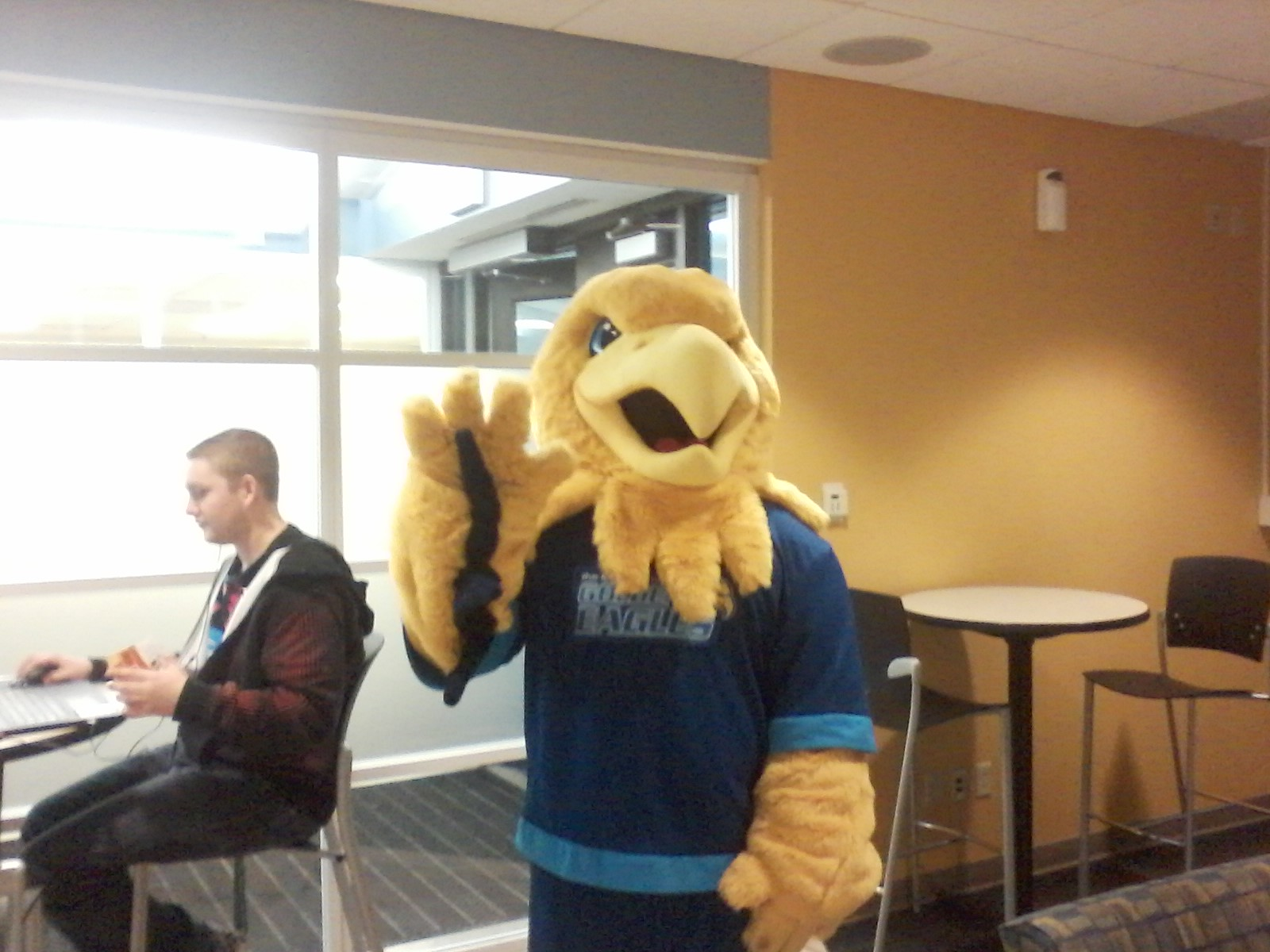 Arvee the Golden Eagle in the Student Lounge at Rock Valley College in Rockford, IL